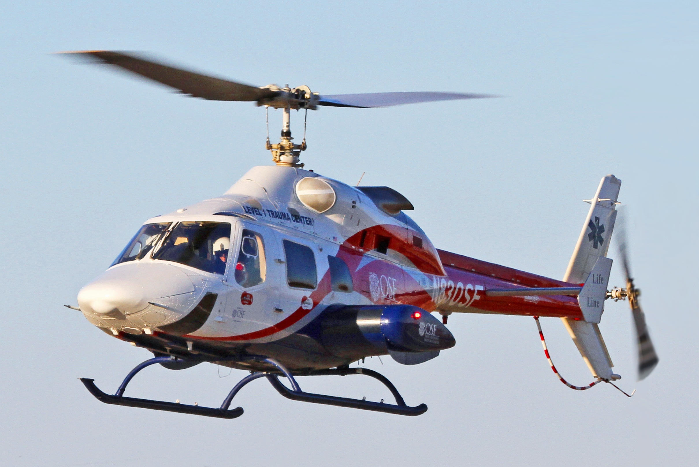 Bell 230 (N830SF) Life Flight